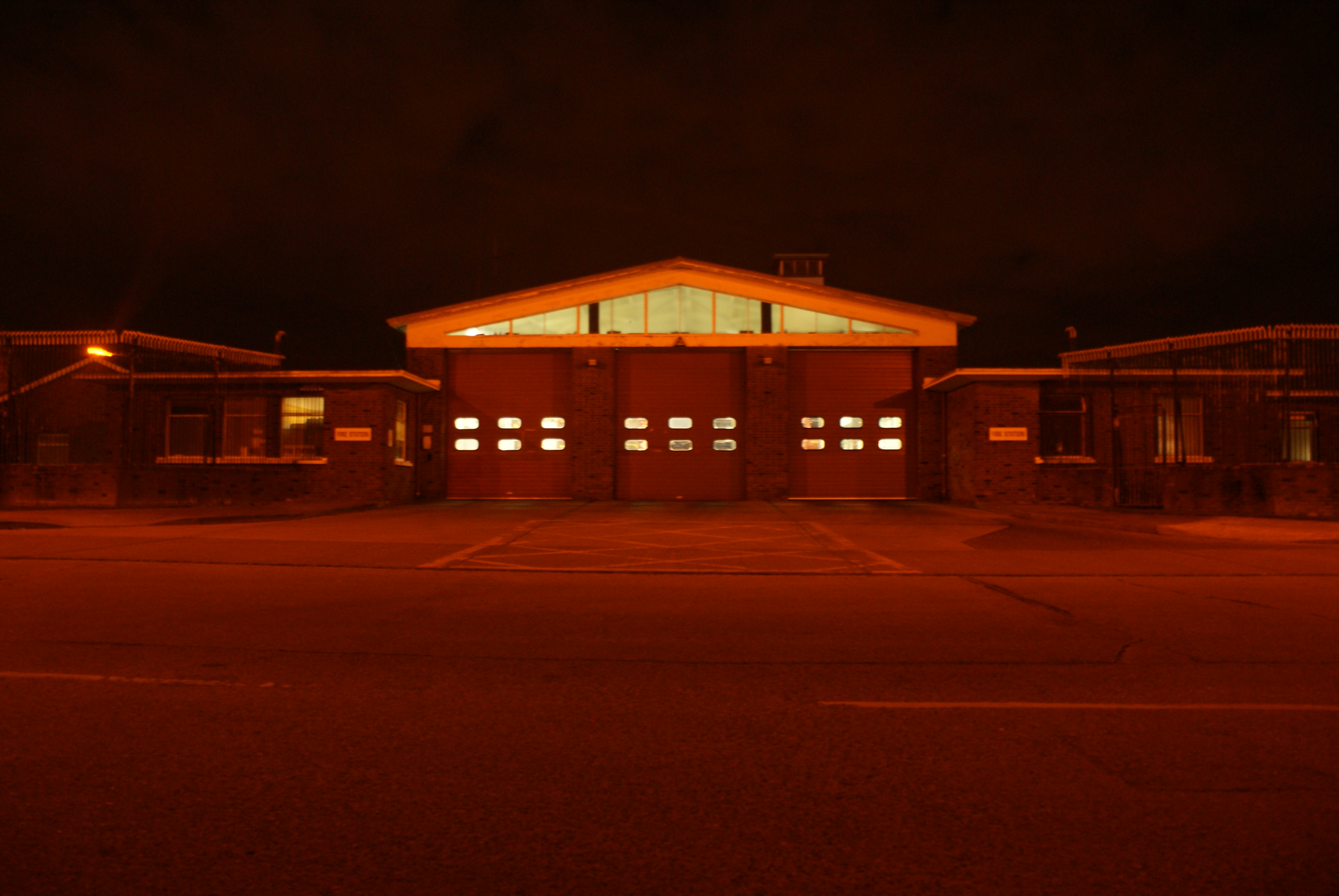 Dolphins Barn Fire Station, Dublin, Ireland.